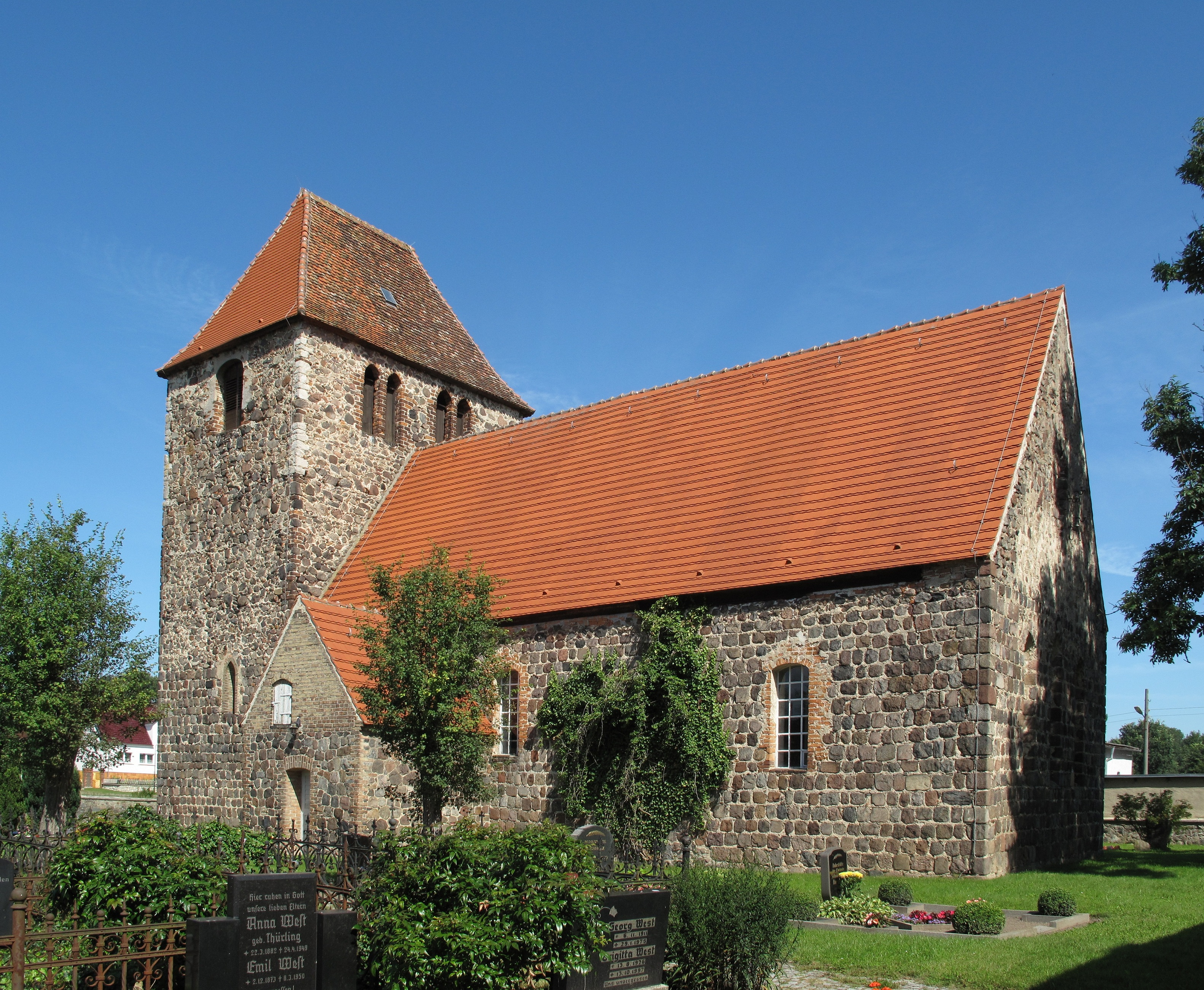 Listed village and Fieldstone church in Garzin, a village of the municipality Garzau-Garzin in the District Märkisch-Oderland, Brandenburg, Germany. The church was built in the 13th-century.